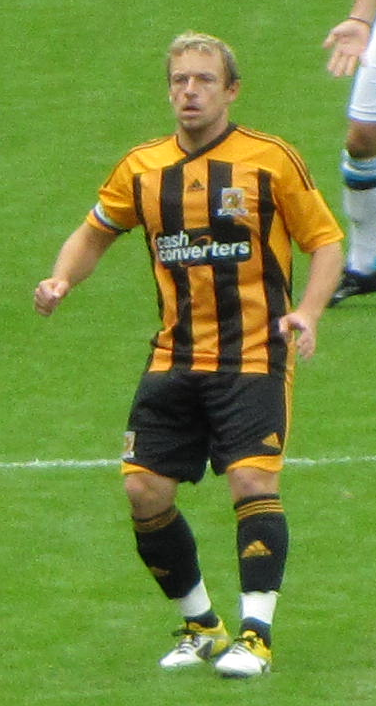 Paul McKenna